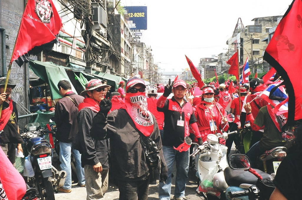 Taken on the 9th of April, the day before clashes killed at least 18.